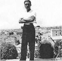 Steve Pisanos at Kolnwnos, Athens